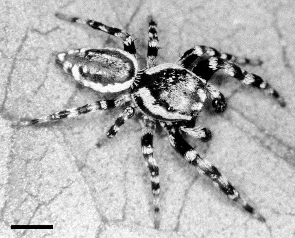 Male Pelegrina galathea jumping spider from Gainesville, Alachua County, Florida, USA